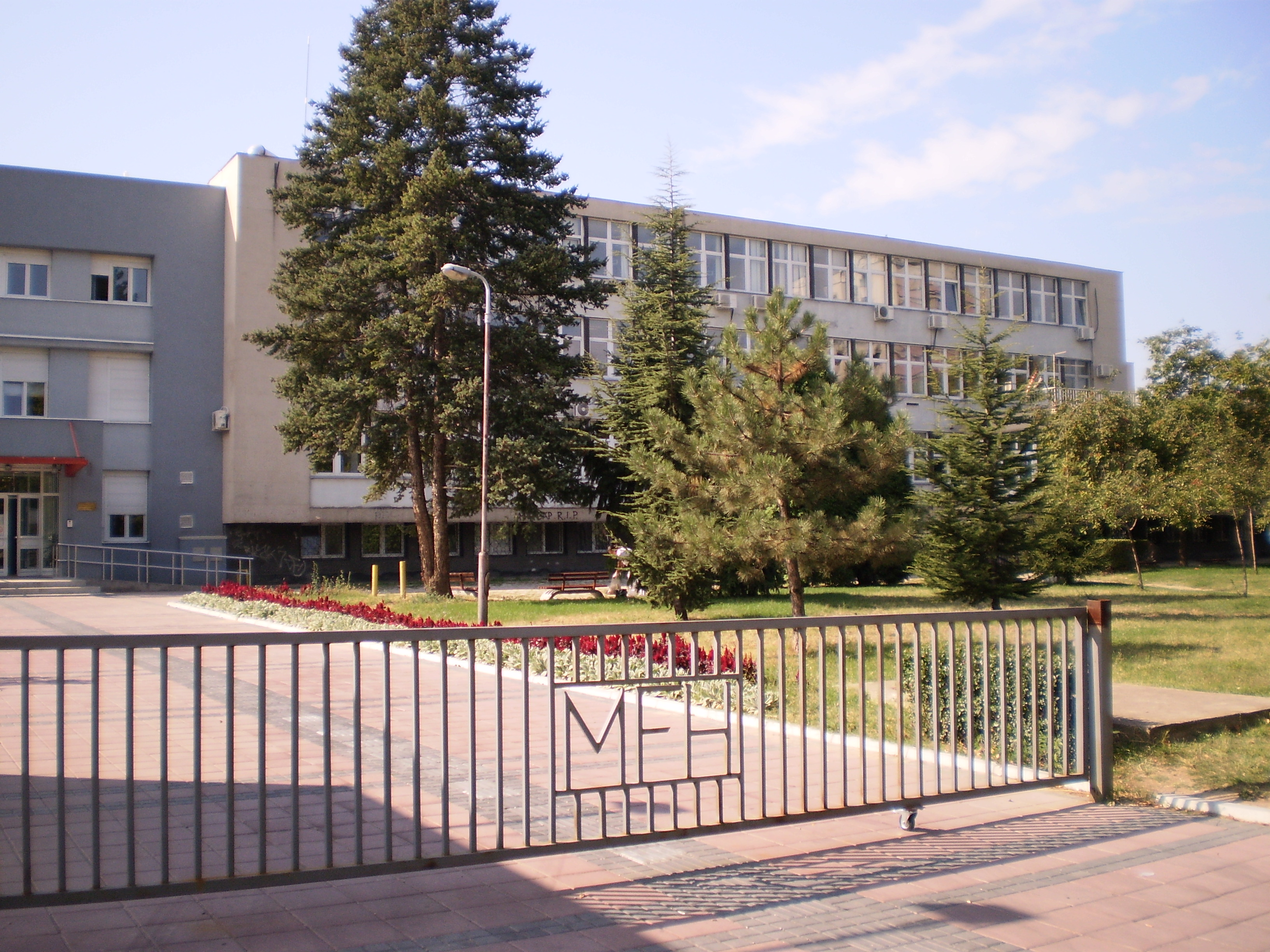 Dentistry faculty of University of Nis